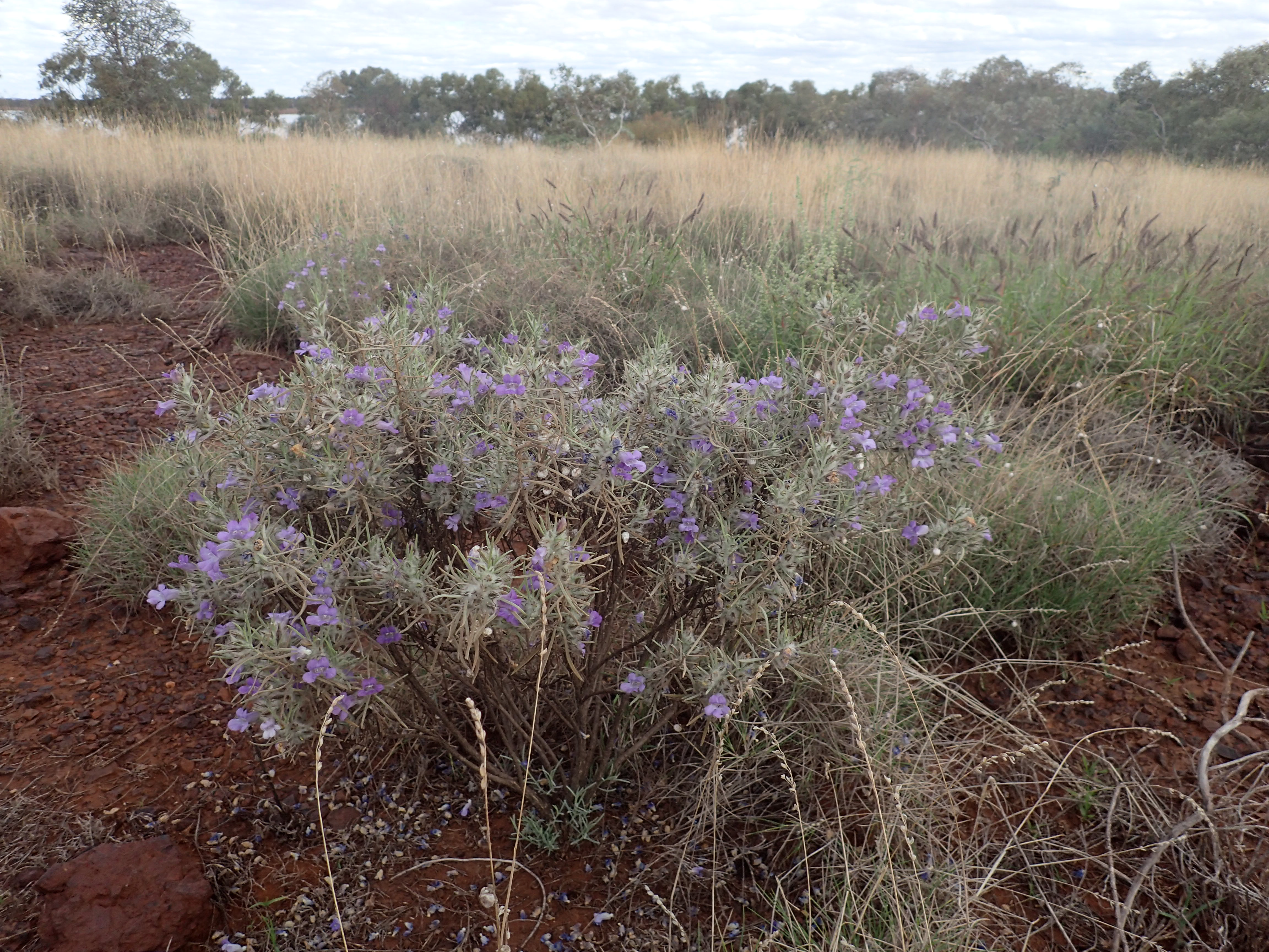 Eremophila margarethae growing at Opthalmia Dam near Newman